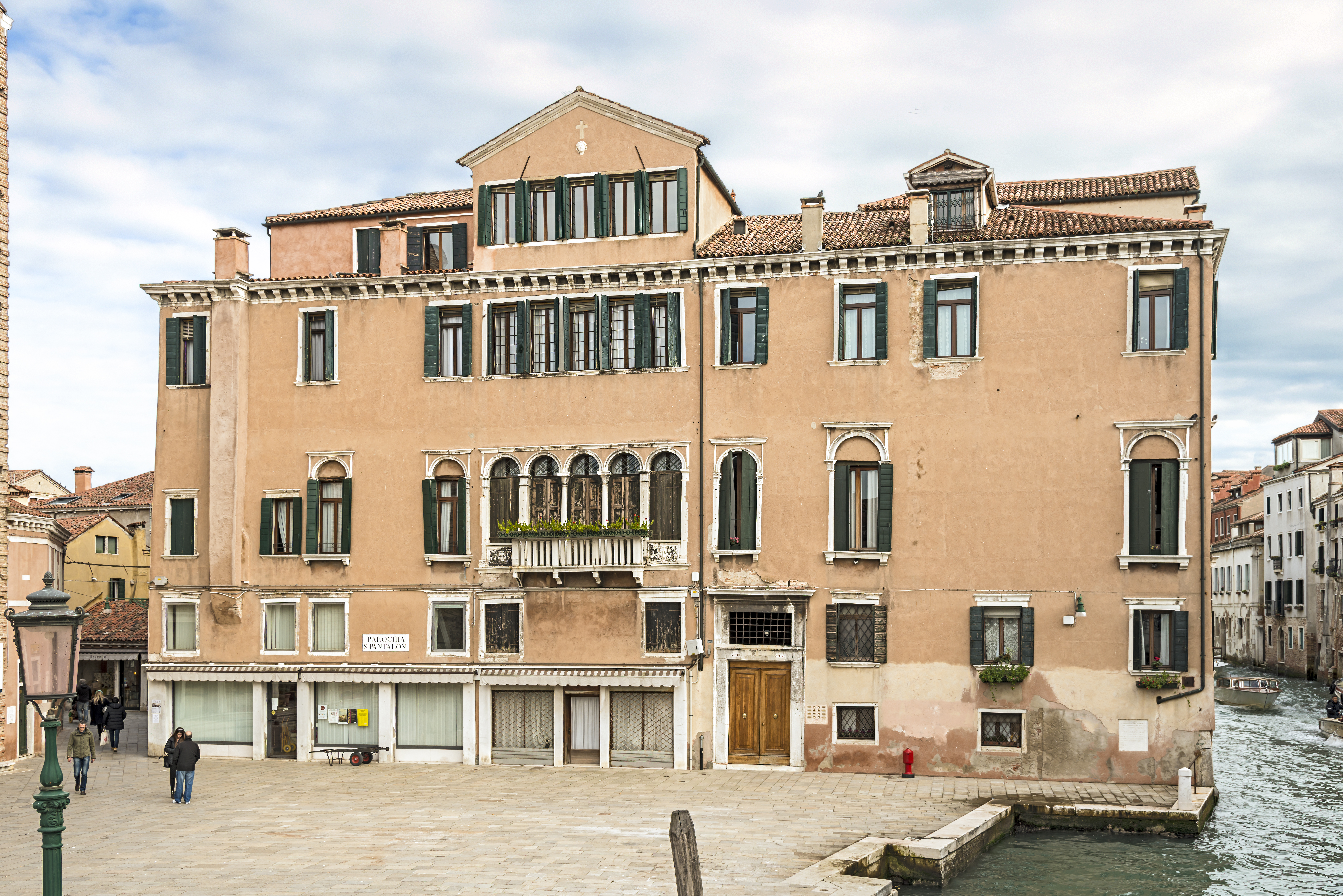 Palace Signolo (N.A. 3708) or Palace Loredan in Venezia – Facade in campo san Pantalon.